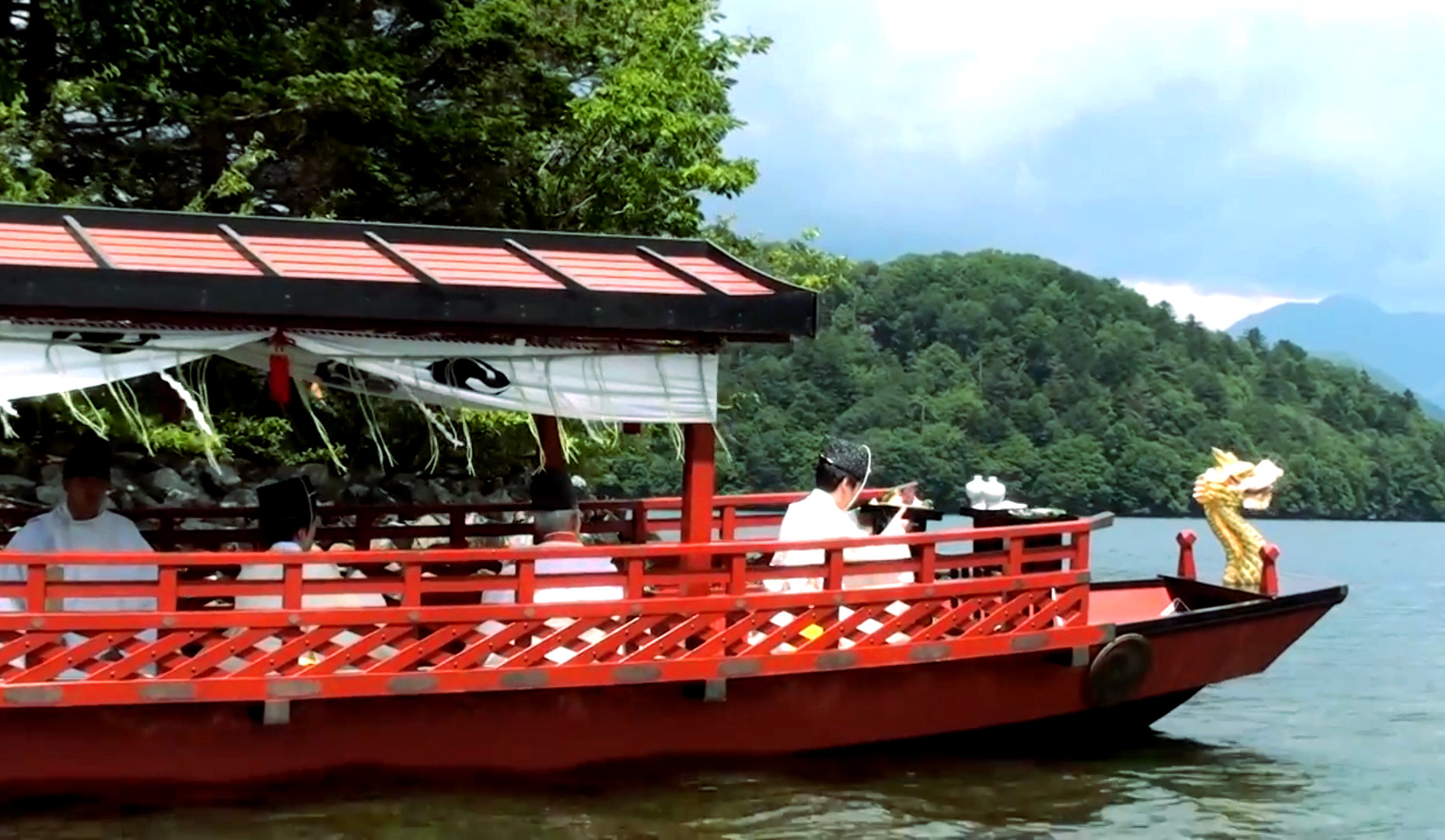 Japan: Kojō matsuri on lake Chūzenji in Nikkō city (Tochigi prefecture).